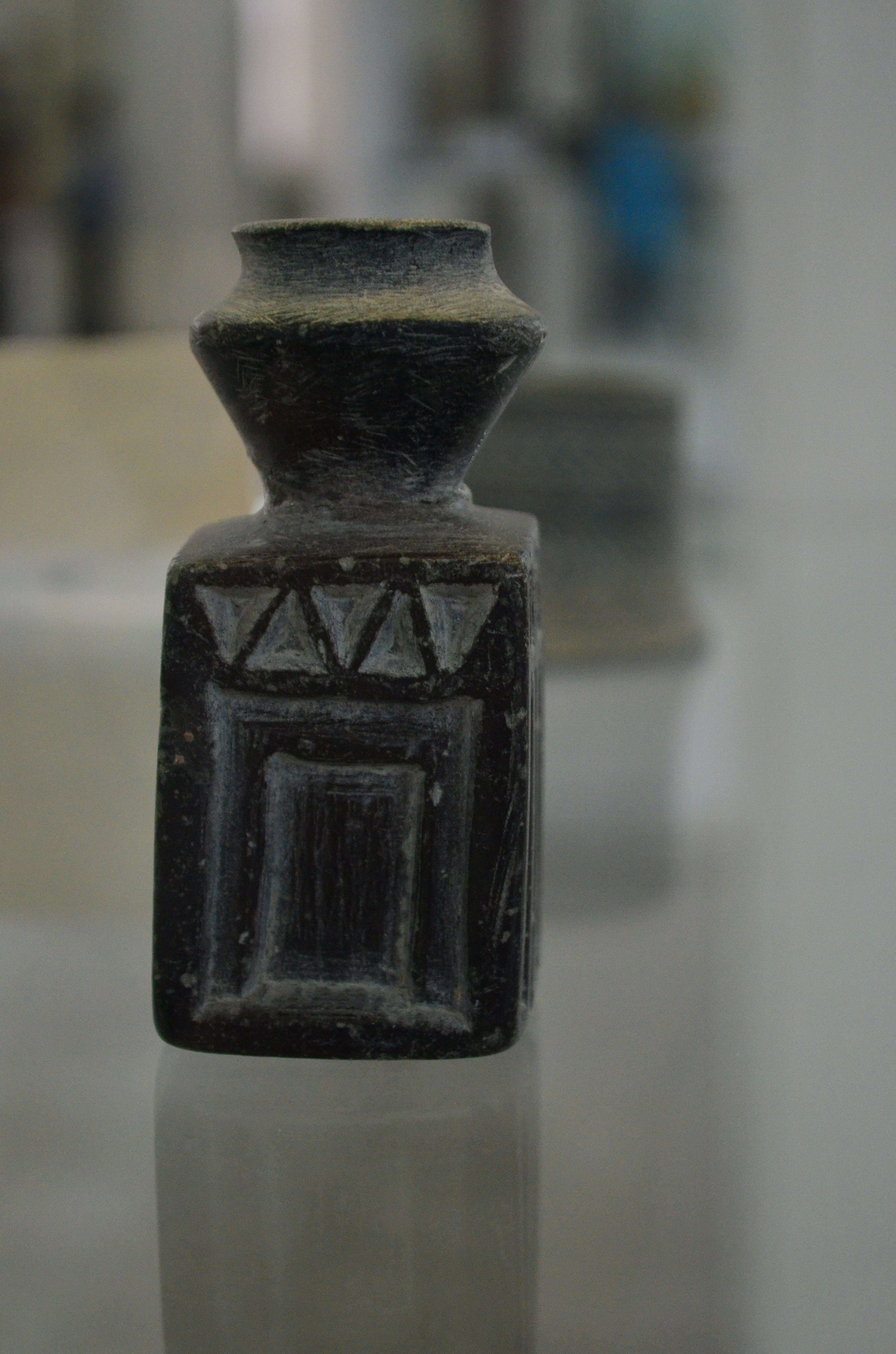 National Museum of Iran National Museum of Iran Native name